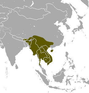 Northern Treeshrew (Tupaia belangeri) range